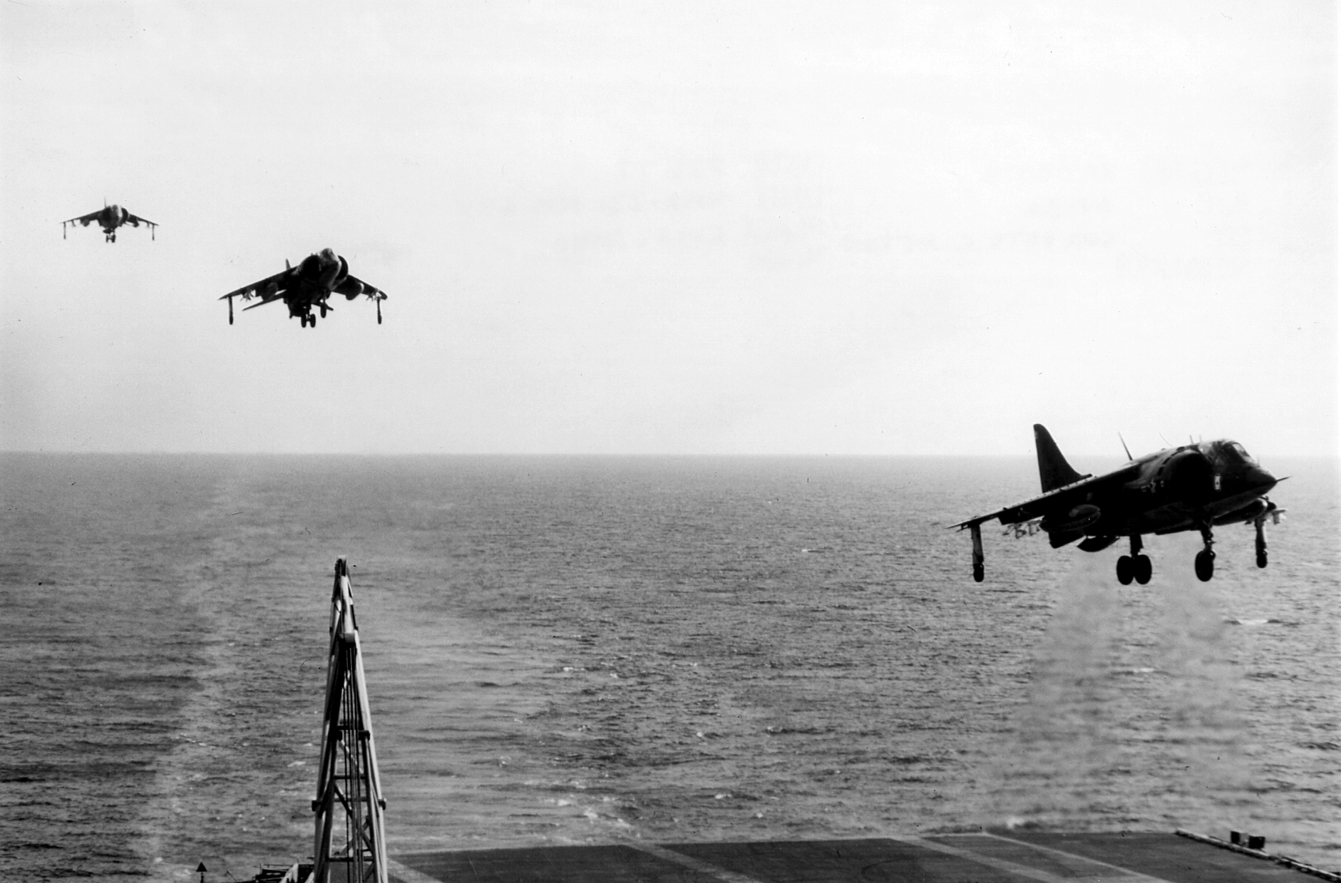 The U.S. Marine Corps Hawker Siddley AV-8A Harriers from Marine Attack Squadron VMA-231 Ace of Spades approach the U.S. Navy aircraft carrier USS Franklin D. Roosevelt (CV-42). VMA-231 was assigned to Carrier Air Wing 19 (CVW-19) for a deployment to the Mediterranean Sea from 4 October 1976 to 21 April 1977, FDR´s last deployment before her decommissioning on 30 September 1977. his cruise marked the first operations of the Vertical Short Take Off and Landing (VSTOL) aircraft from a carrier.